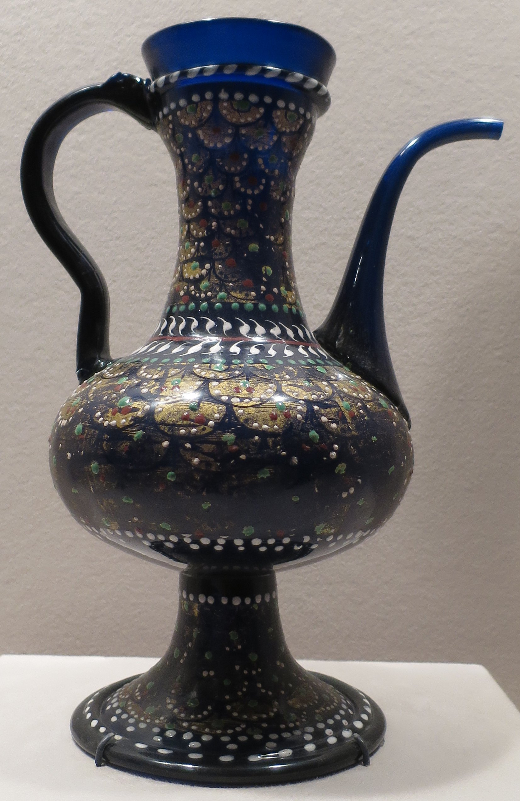 Ewer from Venice, c. 1500, glass with gilding and enamel, Los Angeles County Museum of Art